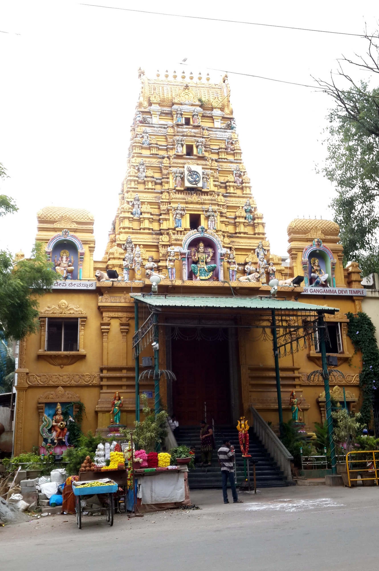 Sri Gangamma Devi Temple Malleswaram, Bangalore